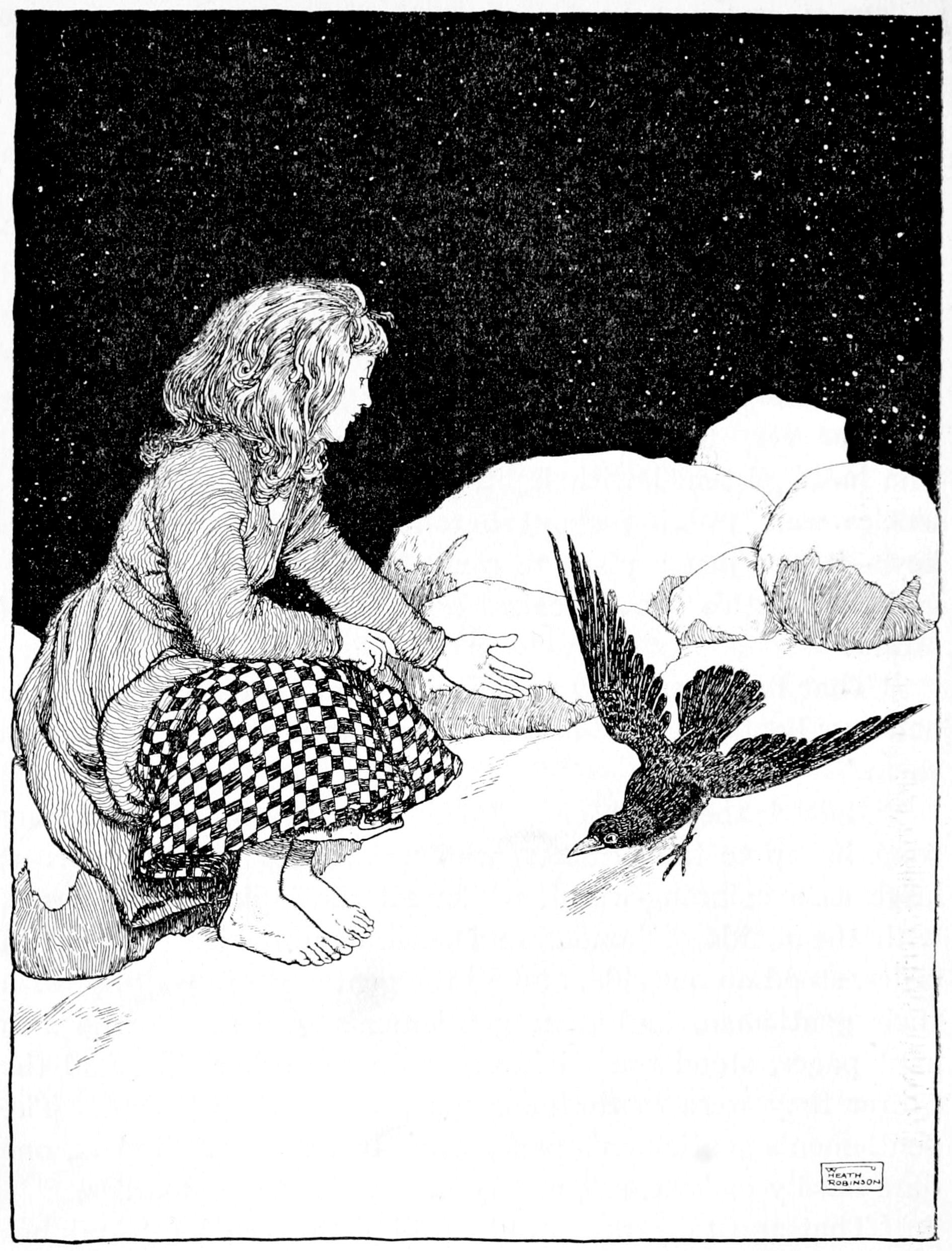 Illustration in Hans Andersen's fairy tales (1913) London: Constable.